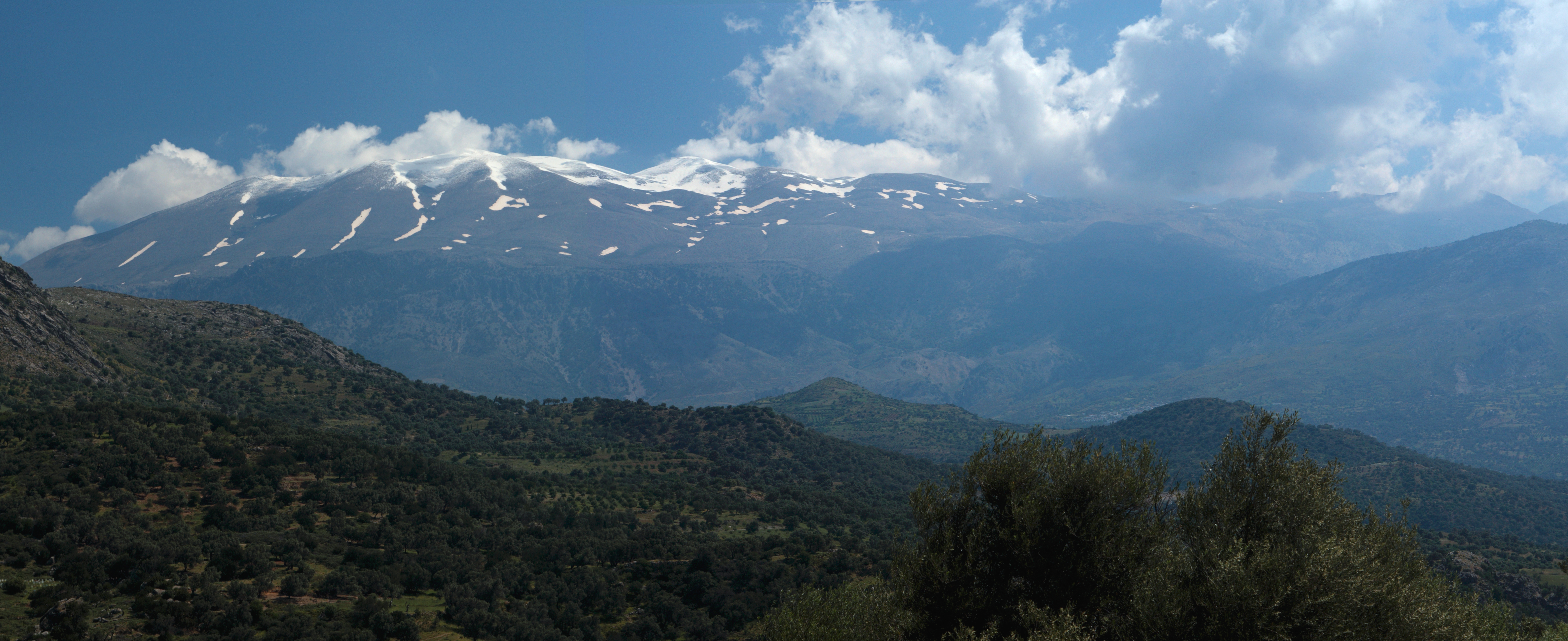 View of Psiloritis mountains from west, Crete